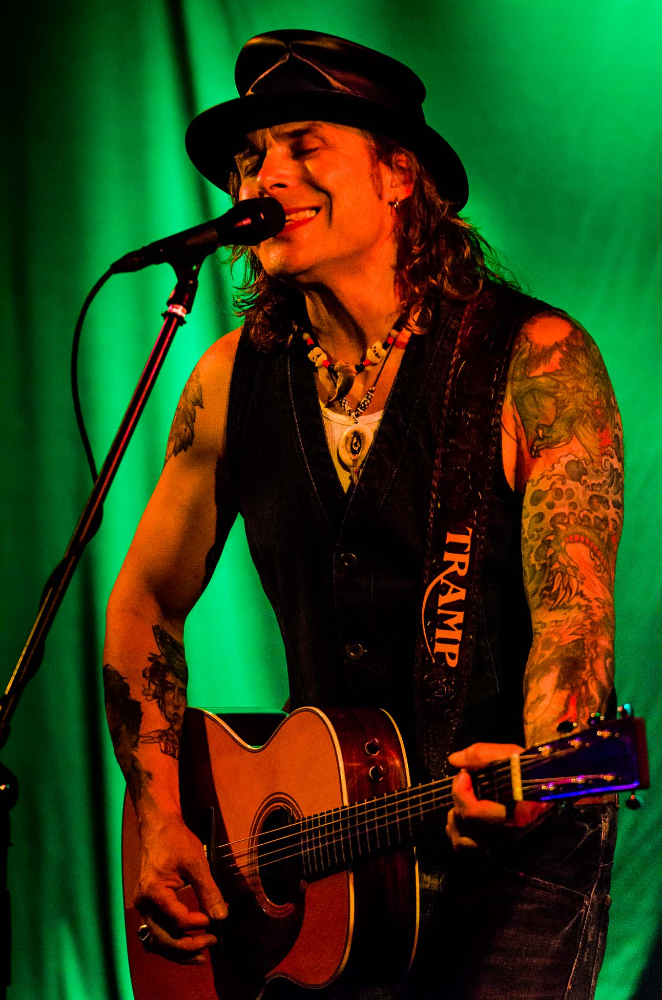 White Lion lead singer Mike Tramp performs solo and acoustic at The Peppertree Lounge in Idaho Falls, Idaho.